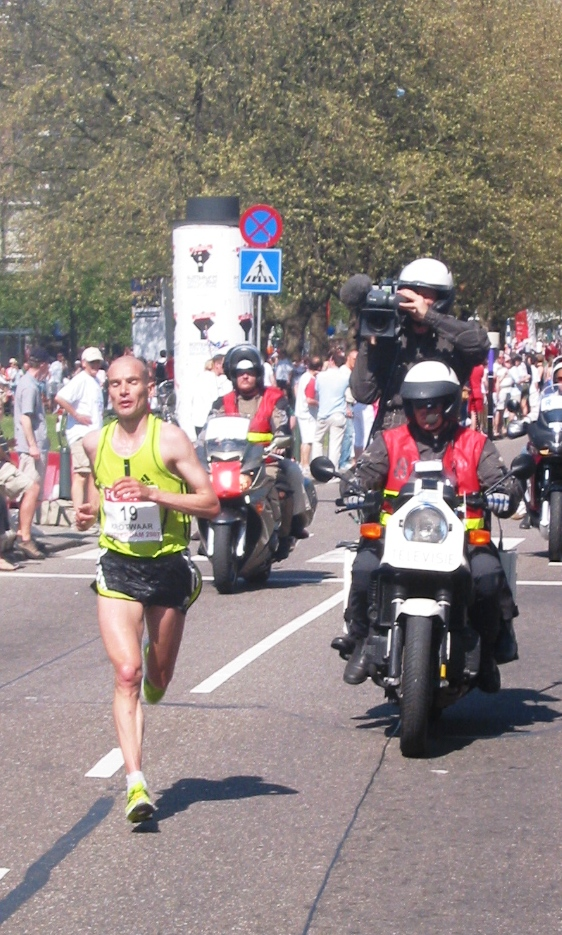 Luc Krotwaar during Rotterdam Marathon 2007 on 40 km point